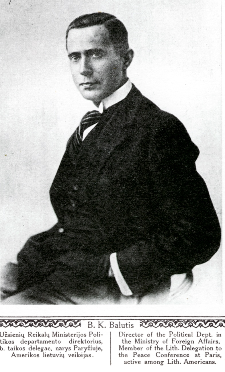 Bronius Kazys Balutis, Lithuanian diplomat, journalist